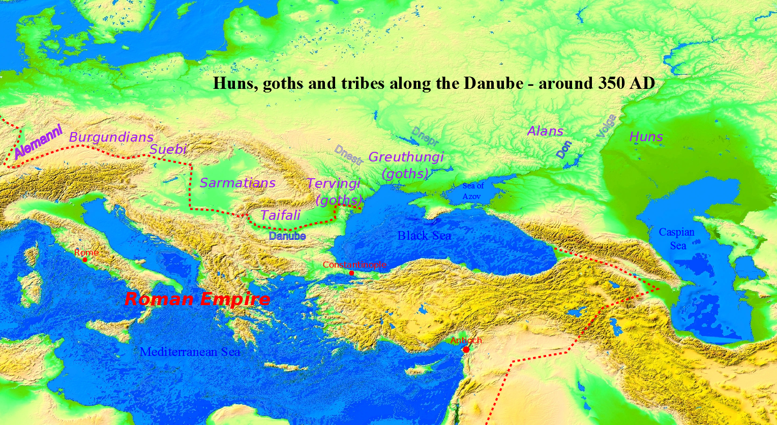 Central and Eastern Europe, ca. AD 350. Showing the Huns and other tribes North of the Roman border.